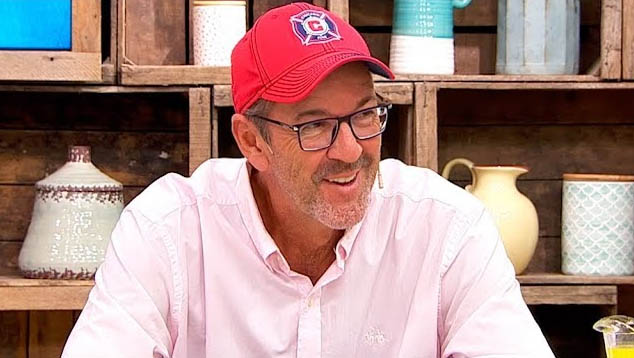 Hugo De León in 2019